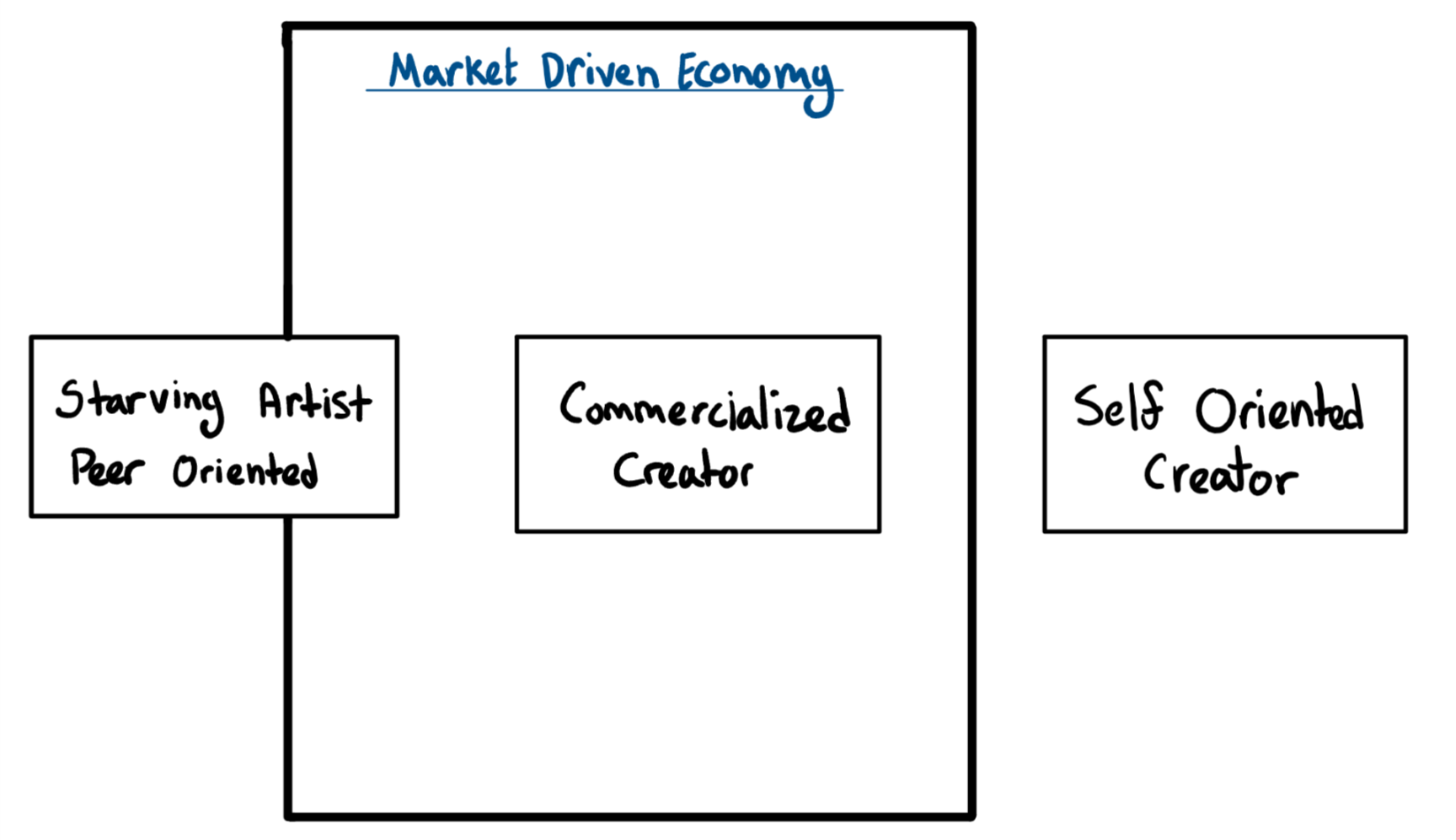 Visual representation of framework